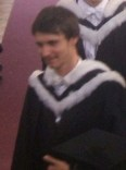 Harry Lloyd at his graduation ceremony in the Sheldonian Theatre Oxford.